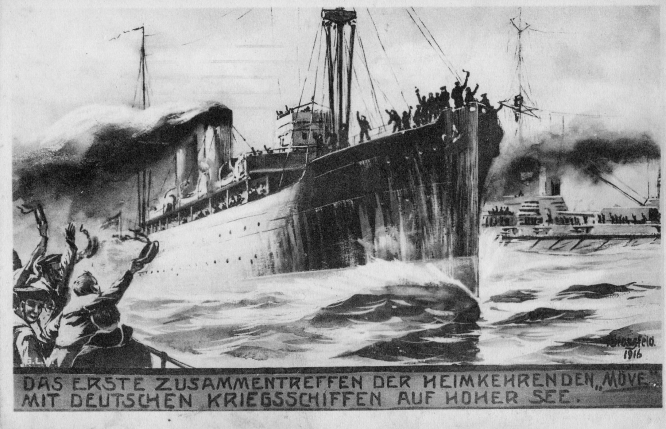 German auxiliary cruiser SMS MÖVE 1916